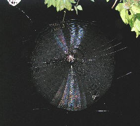 web of Poltys illepidus from Okinawa.